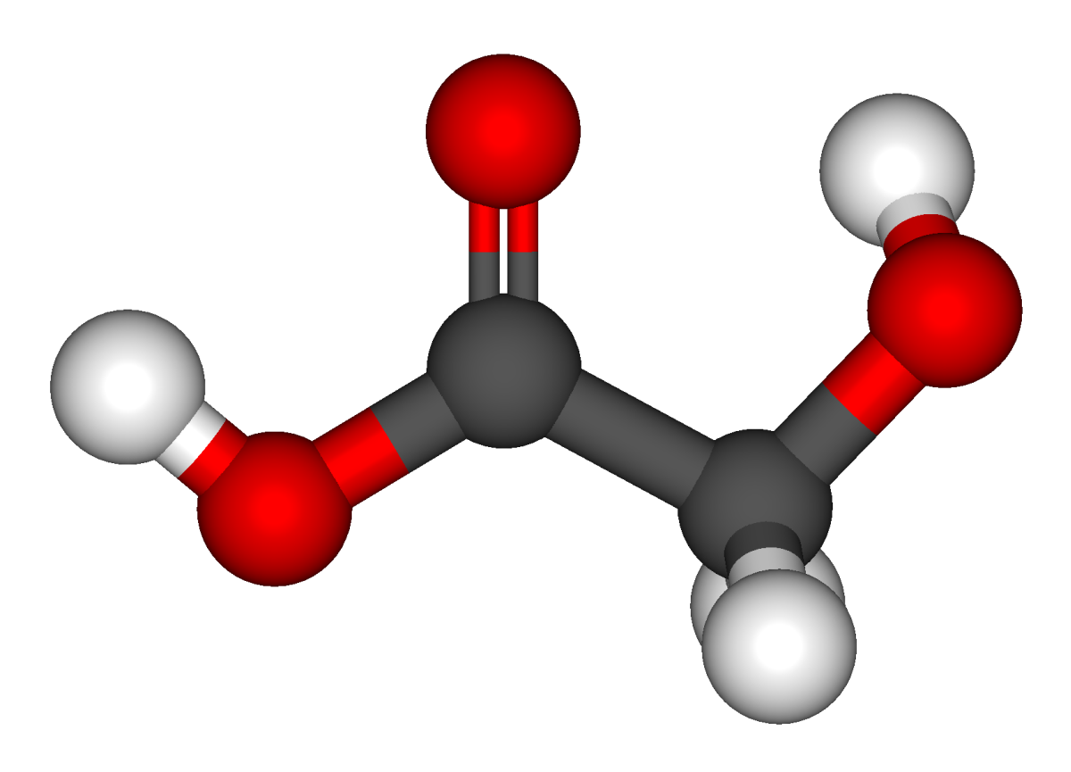 Ball-and-stick-model of glycolic acid (2-hydroxyacetic acid). Created using Accelrys DS Visualizer Pro 1.6 and GIMP.